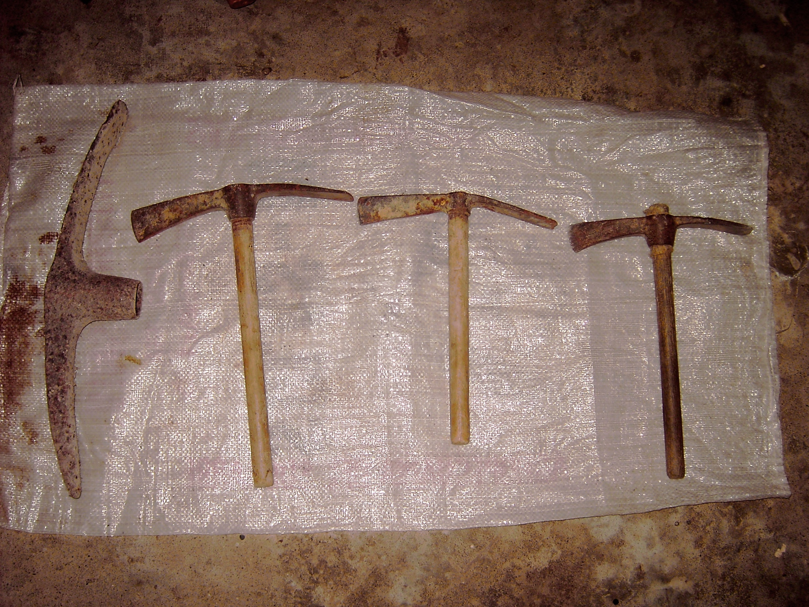 Small pickaxes in comparison with a pickax's head. Aragonés: Piquetas en comaparanza con o tozuel d'una Pica.